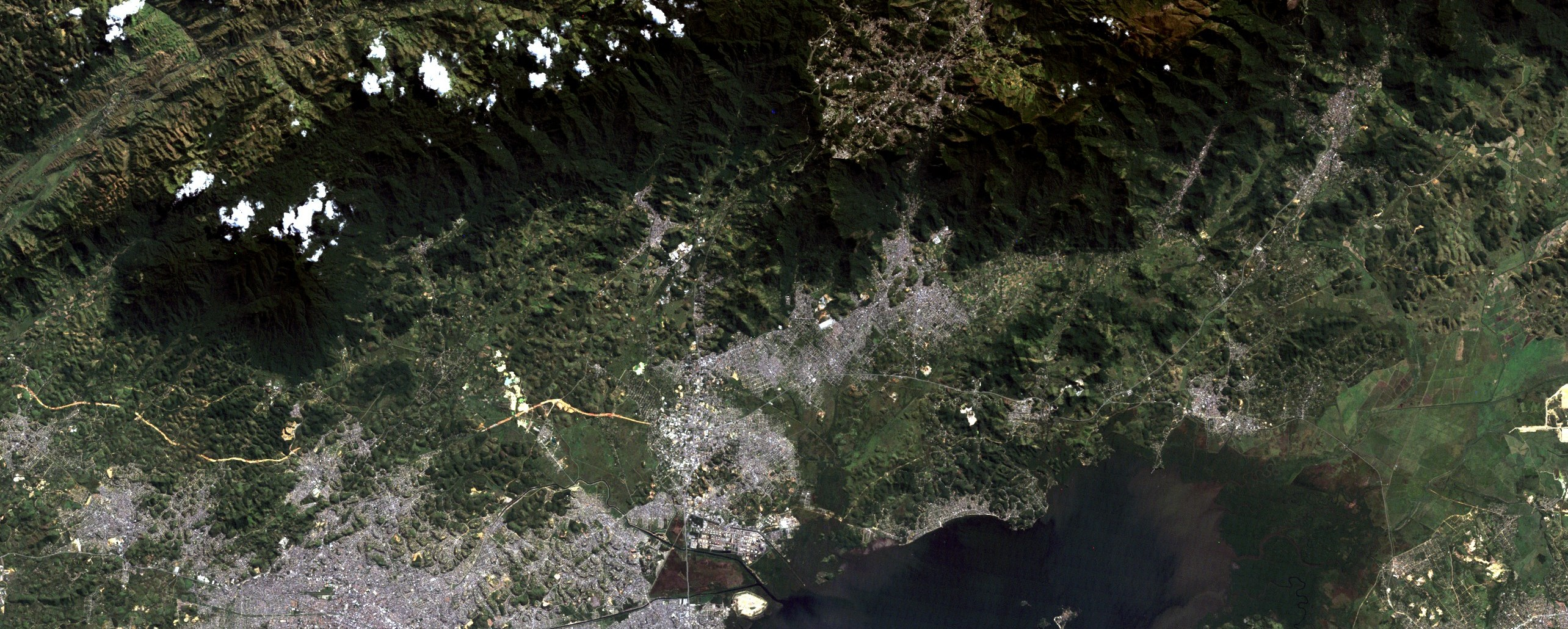 Satellite image of Baixada Fluminense in stricto sensu (from the municipalities of Queimados to Guapimirim). LandSat-5, near natural colors, resolution 30 meters.